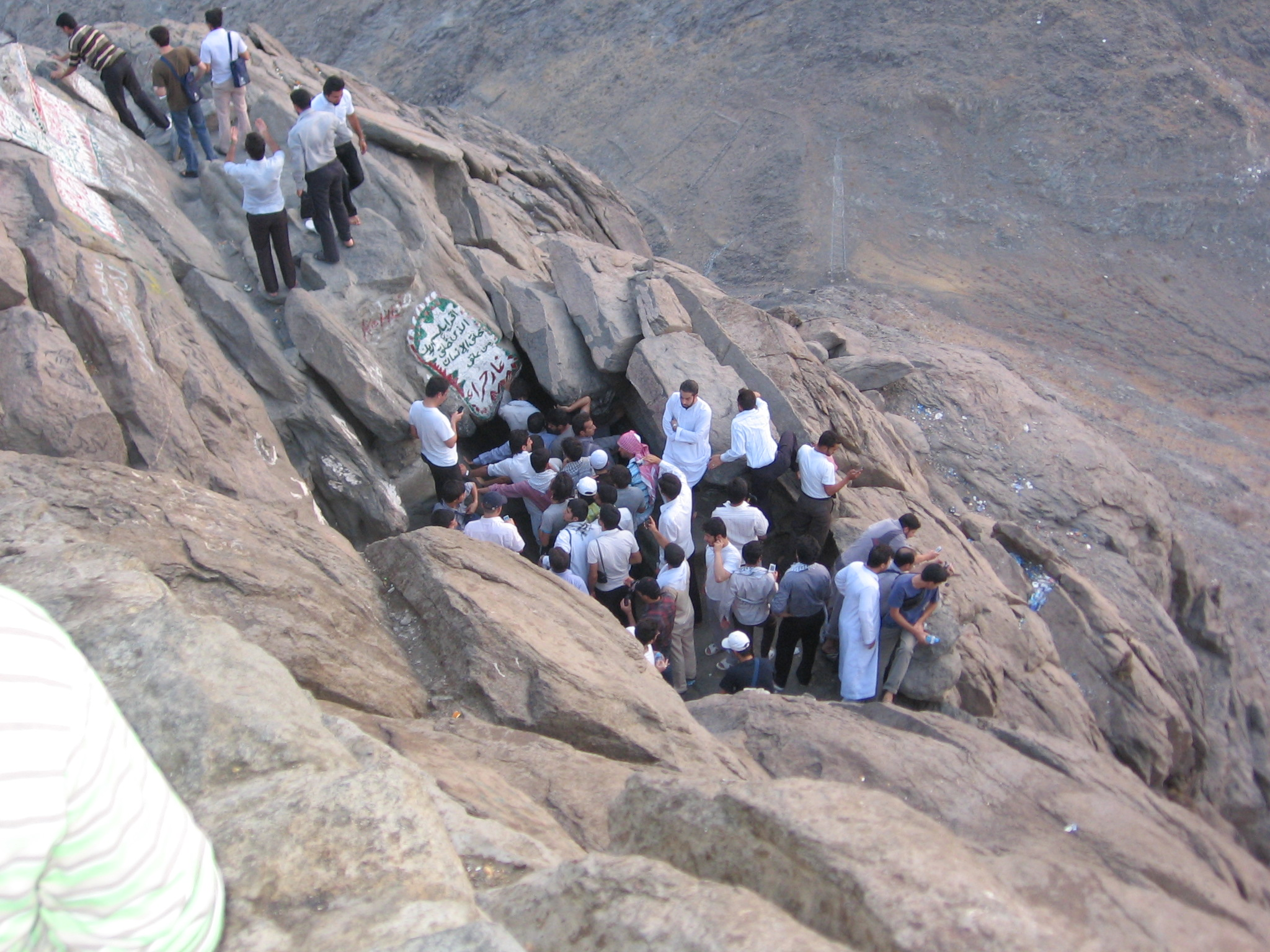 Hira cave in mecca Saudi Arabia